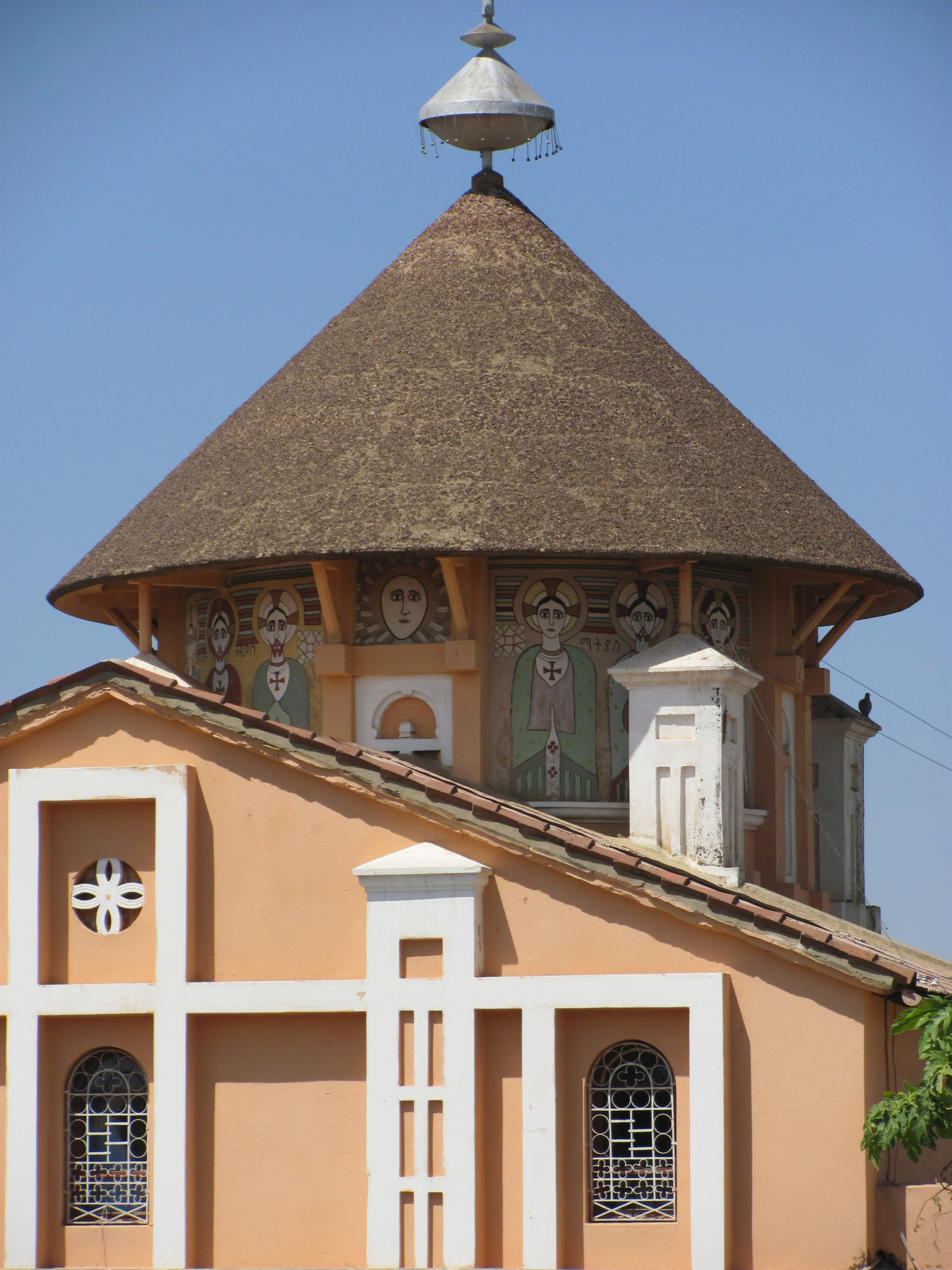 Detail of a building in the compound of Nda Mariam Cathedrale, Asmara